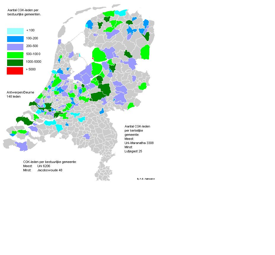 members of Christelijke Gereformeerde Kerk in Nederland in map